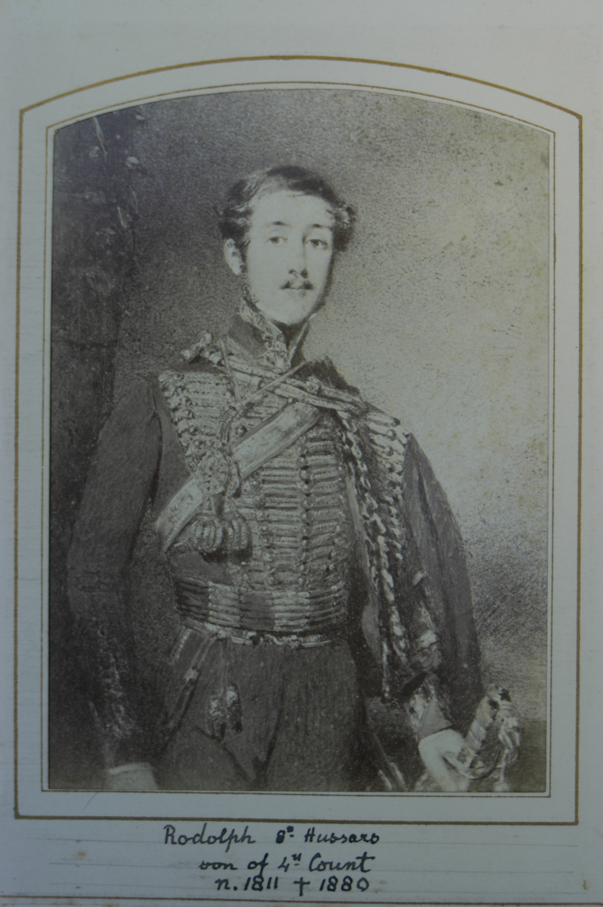 Photo by me (R. de Salis, Rodolph (talk) 23:00, 13 July 2014 (UTC)), of a pre-1884 photo of a circa 1832 sketch, by Sir David Wilkie (1785 – 1841).